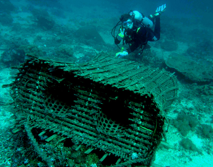 Traditional Timorese fish trap (in situ)